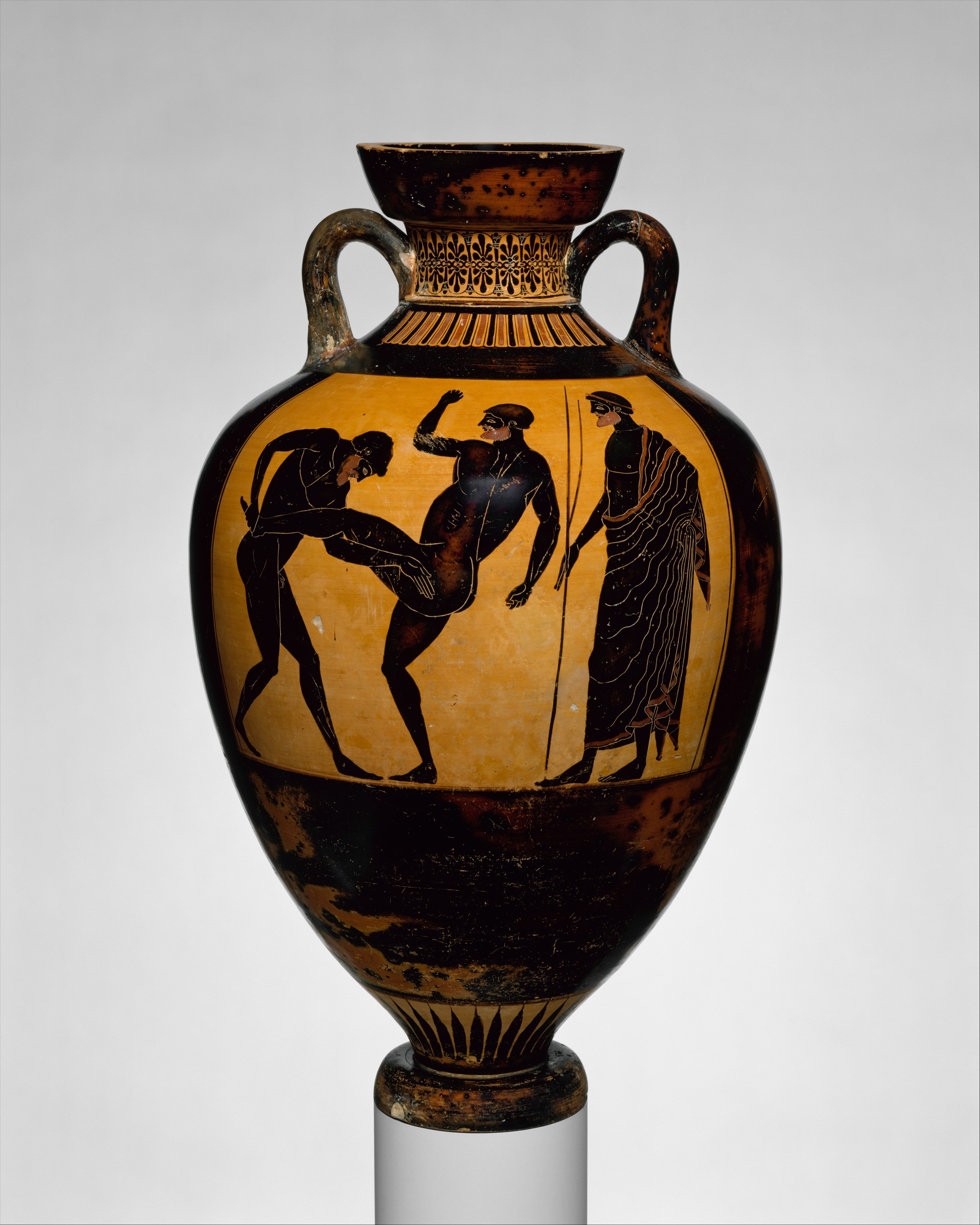 Greek, Attic; Panathenaic prize amphora; Vases